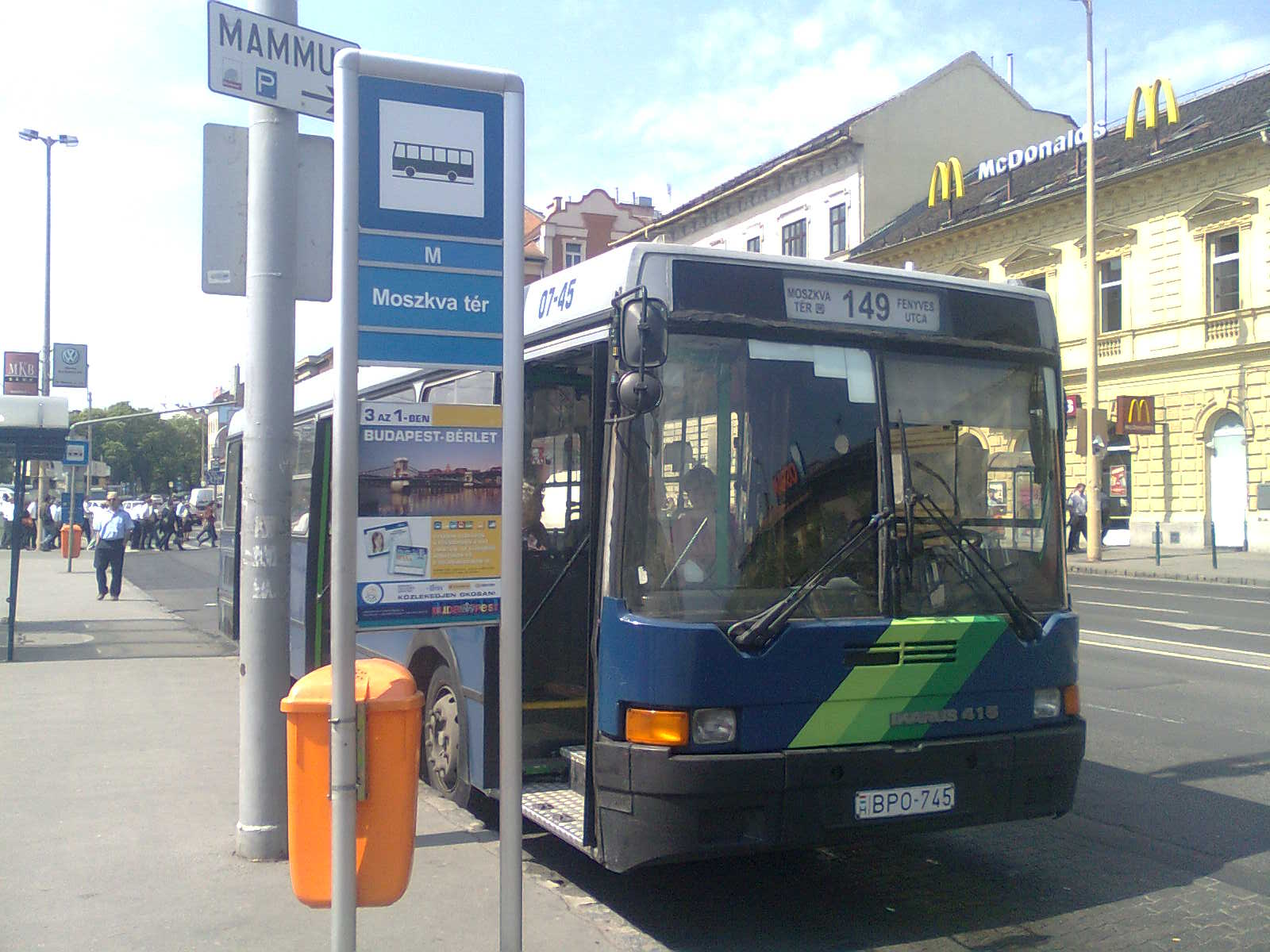 149 bus